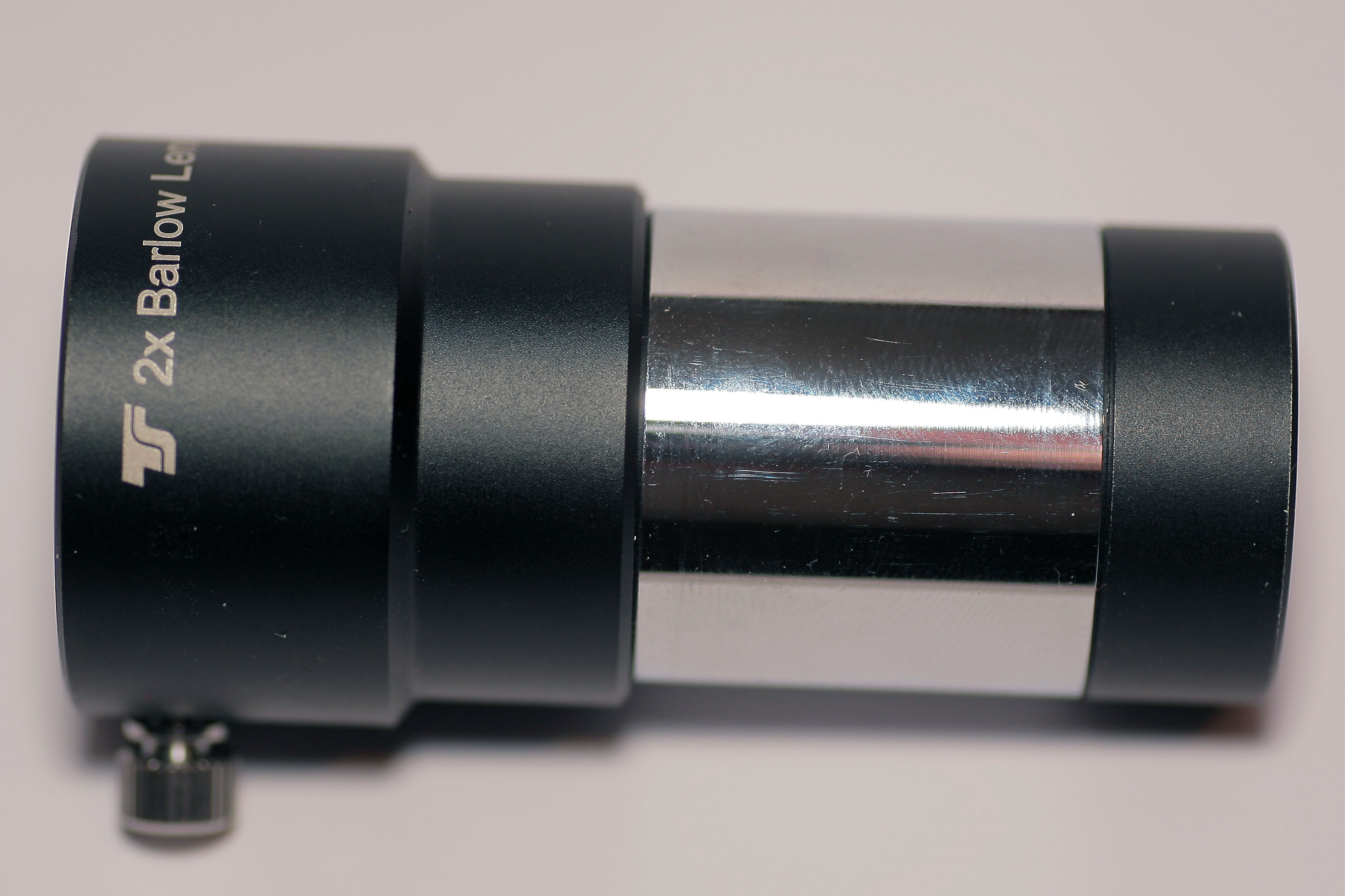 A Barlow lens for enlarging the magnification of an ocular.